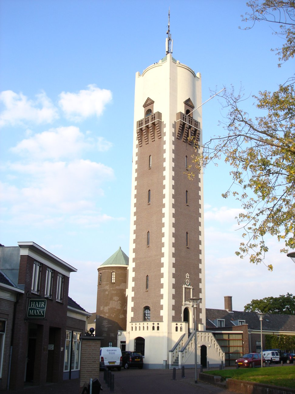 The water tower in the Dutch town of Barendrecht